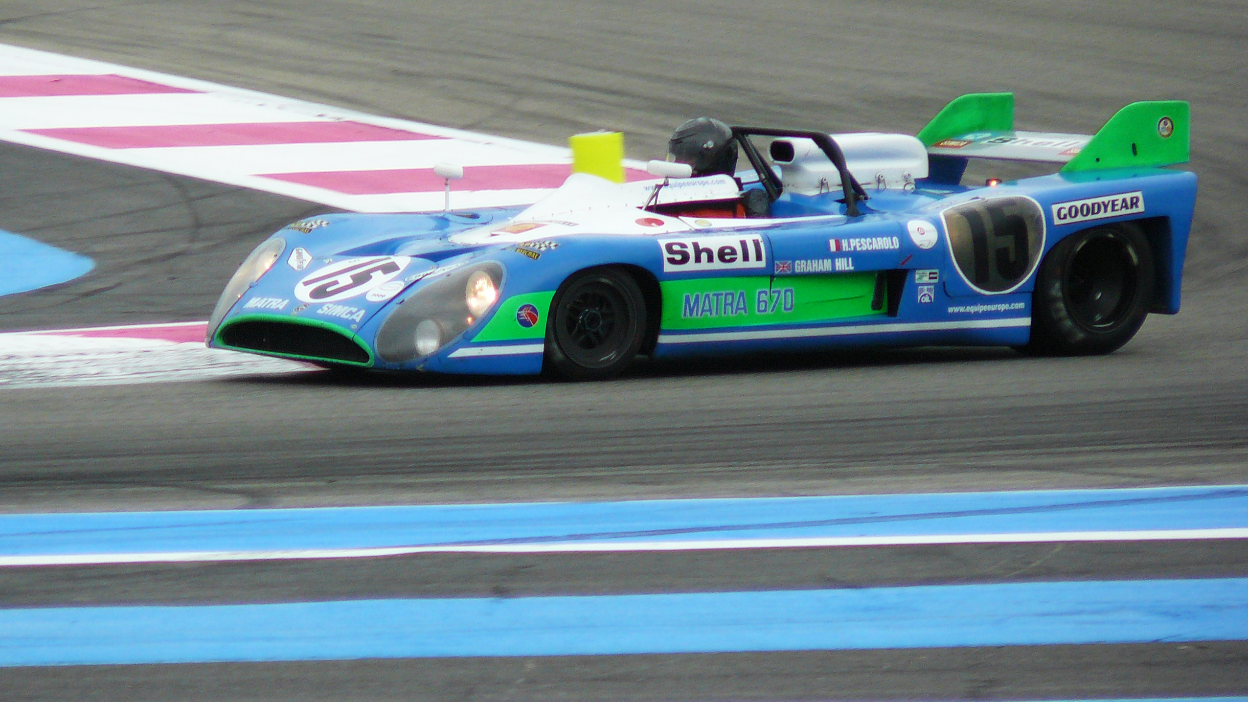 Matra MS670 Pescarolo at Paul Ricard track